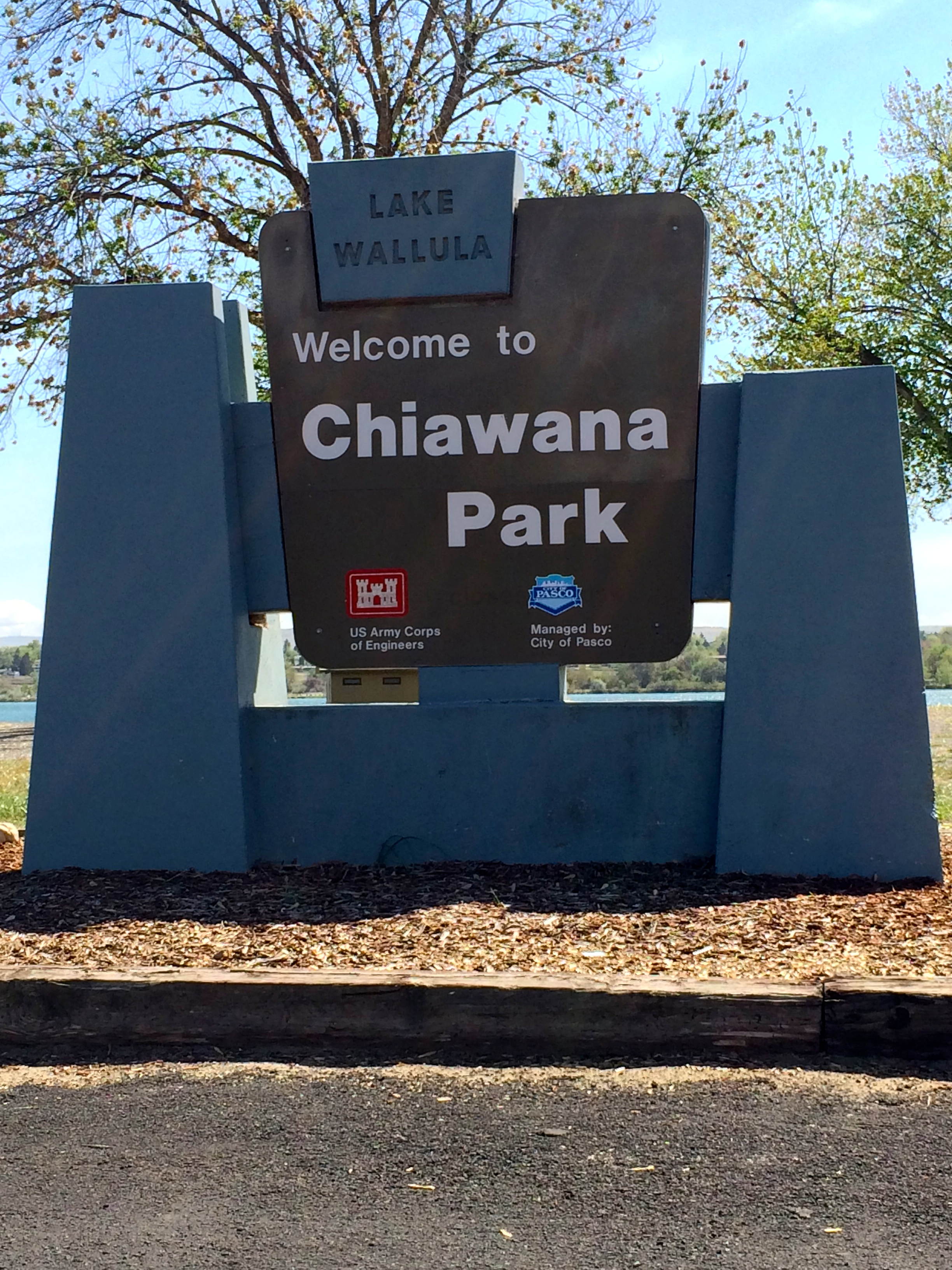 Inside entrance sign to Chiawana Park in Pasco, Washington.